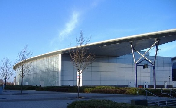 Red Dragon Centre, Cardiff Bay Houses a cinema, bowling alley, casino and restaurants.